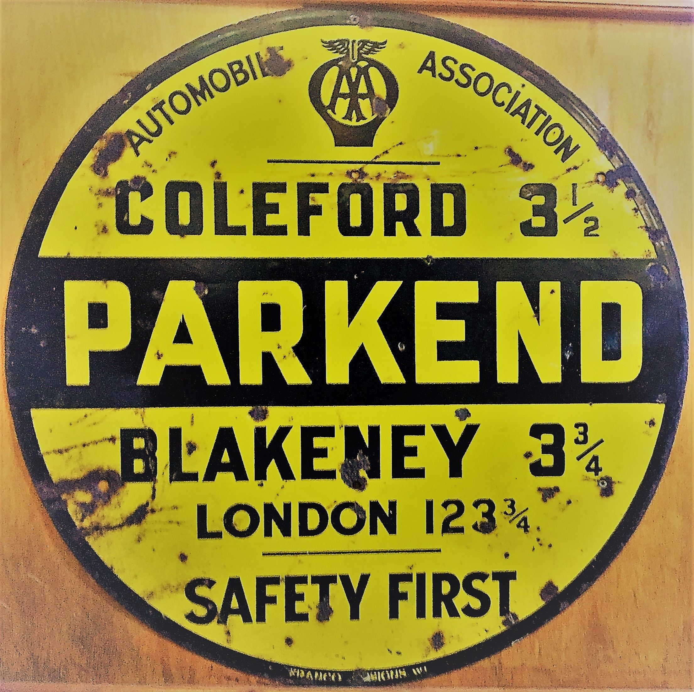 Post war AA road sign; Parkend, in the Forest of Dean, Gloucestershire. Temporary sign installed by the AA to aid navigation after road signs had been removed during the war. Currently on display in the Fountain Inn, at Parkend.